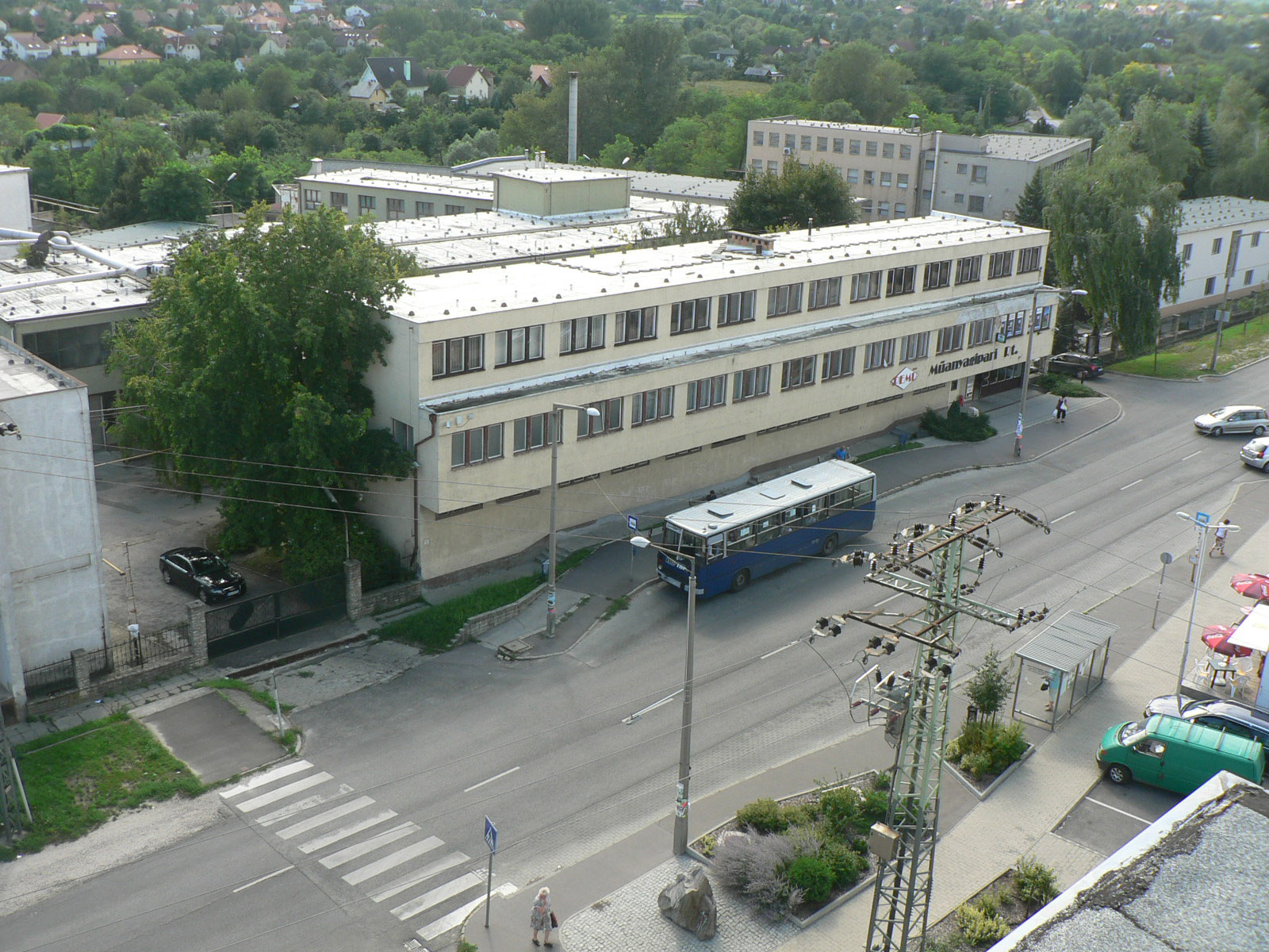 PEMÜ Műanyagipari Zrt. plastic processing company